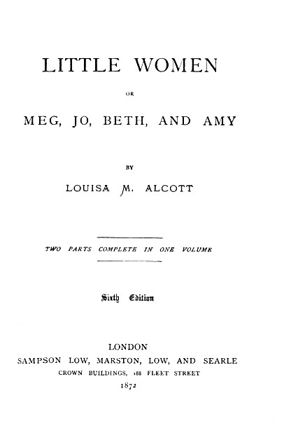 Title page of the sixth edition of the novel Little Women by American writer Louisa May Alcott, published 1872. Note: library markings have been removed digitally.